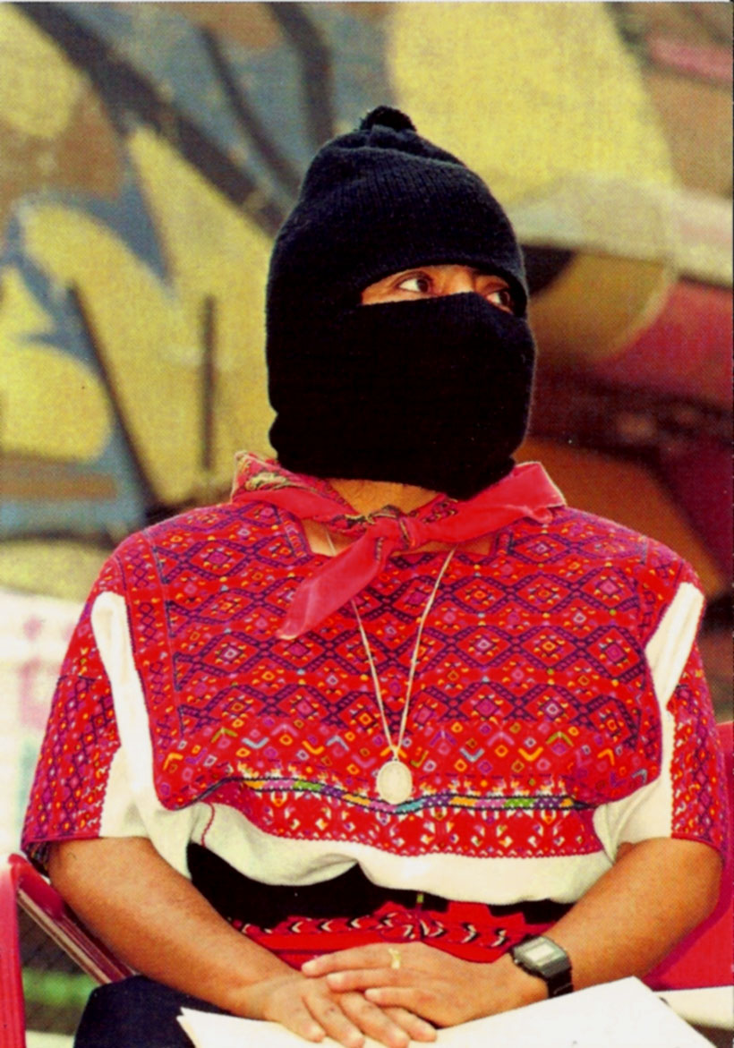 In Memory of Comandante Ramona